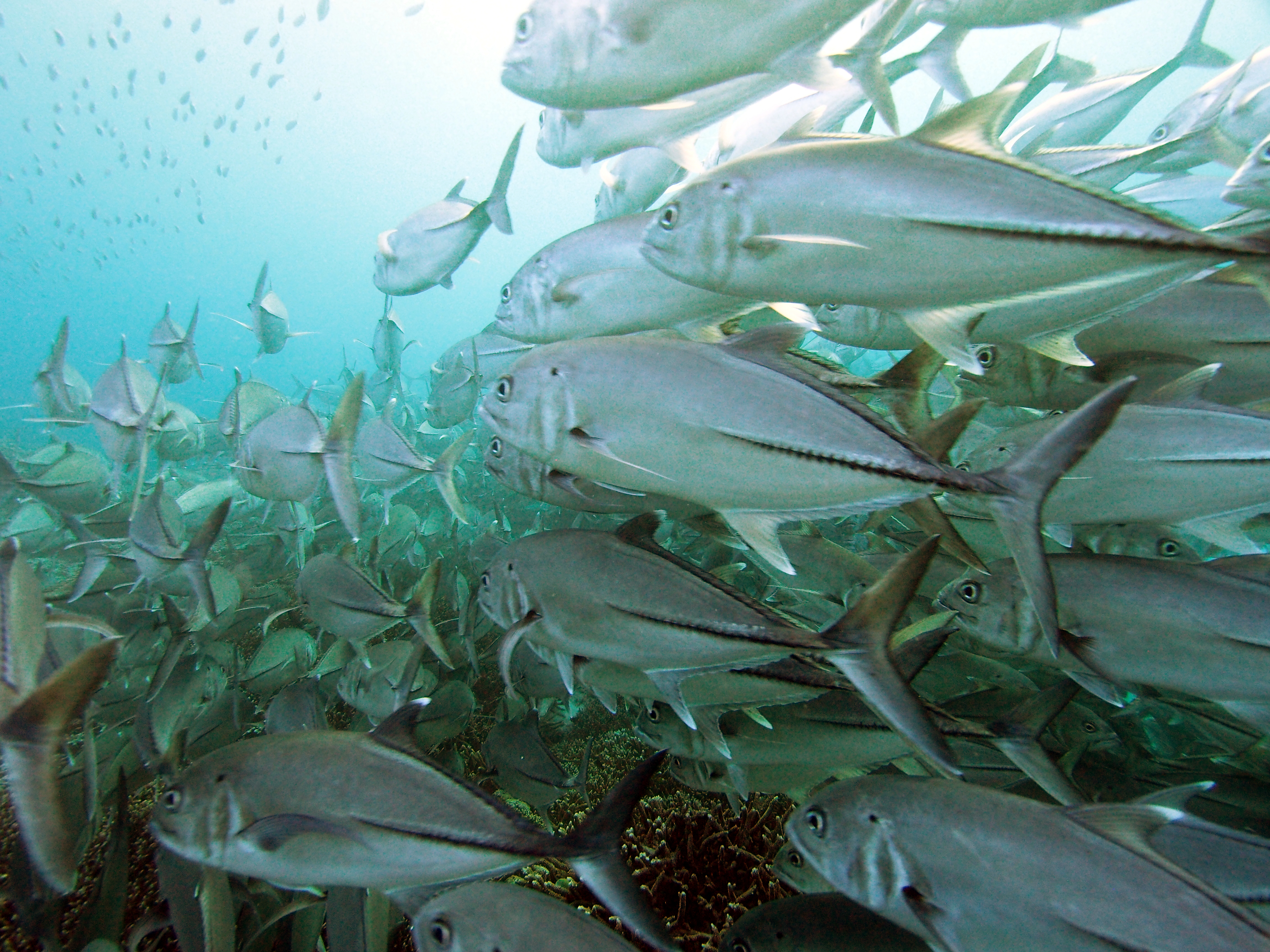 School of Big eye trevally, Caranx sexfasciatus, in a marine reserve